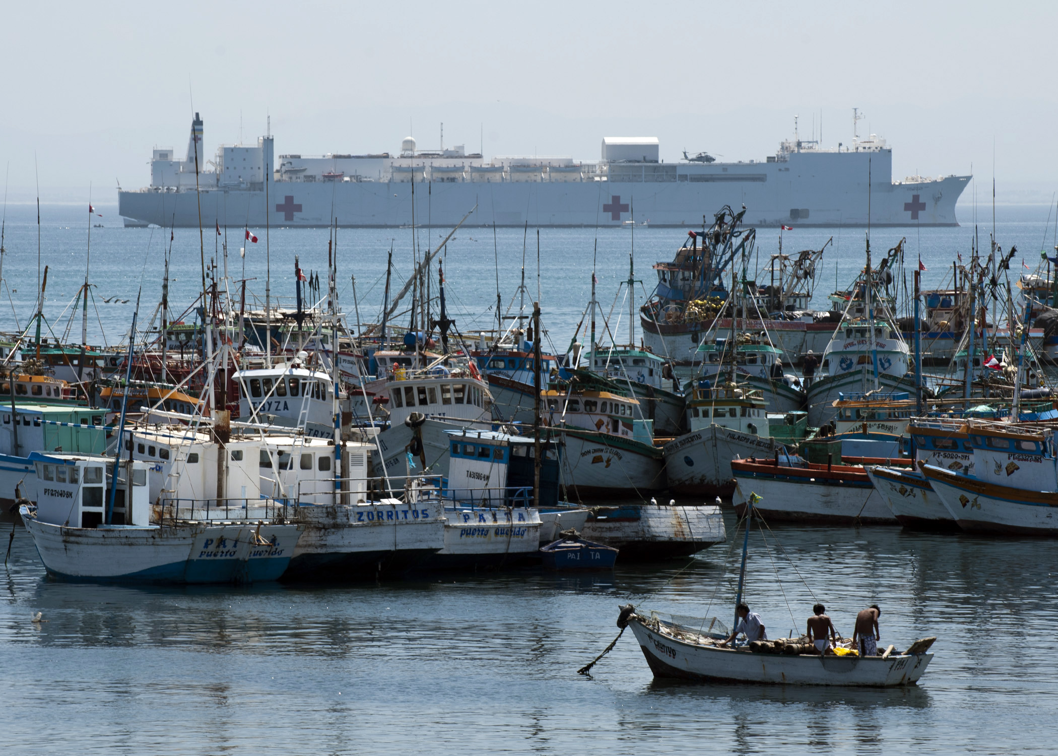 PAITA, Peru (May 6, 2011) The Military Sealift Command hospital ship USNS Comfort (T-AH 20) is anchored in the fishing town of Paita, Peru. Comfort is deployed supporting Continuing Promise 2011, a five-month humanitarian assistance mission to the Caribbean, Central and South America. (U.S. Navy photo by Mass Communication Specialist 2nd Class Eric C. Tretter/Released)